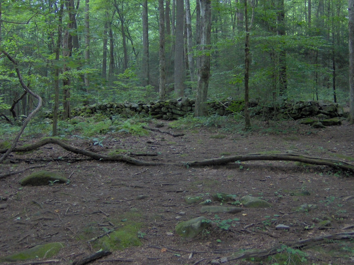 The site and remains of the Elbert and Sarah Cantrell homestead in Greenbrier, located in the Great Smoky Mountains (National Park), in East Tennessee. Stacked dry stone walls are a common site in Greenbrier.